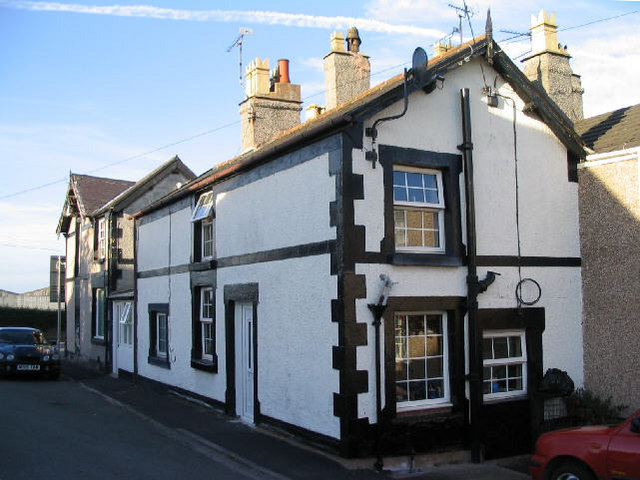 Houses in Treuddyn. Although probably unconnected with the photo, there is an interesting web page on ghosts in this area here